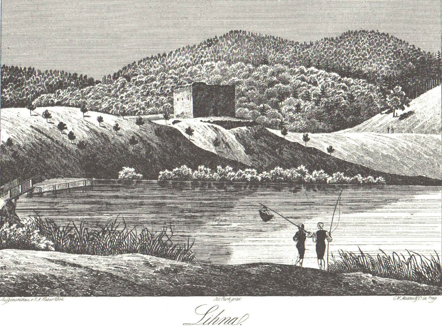 Ruins of Fort Lina in Czech Republic